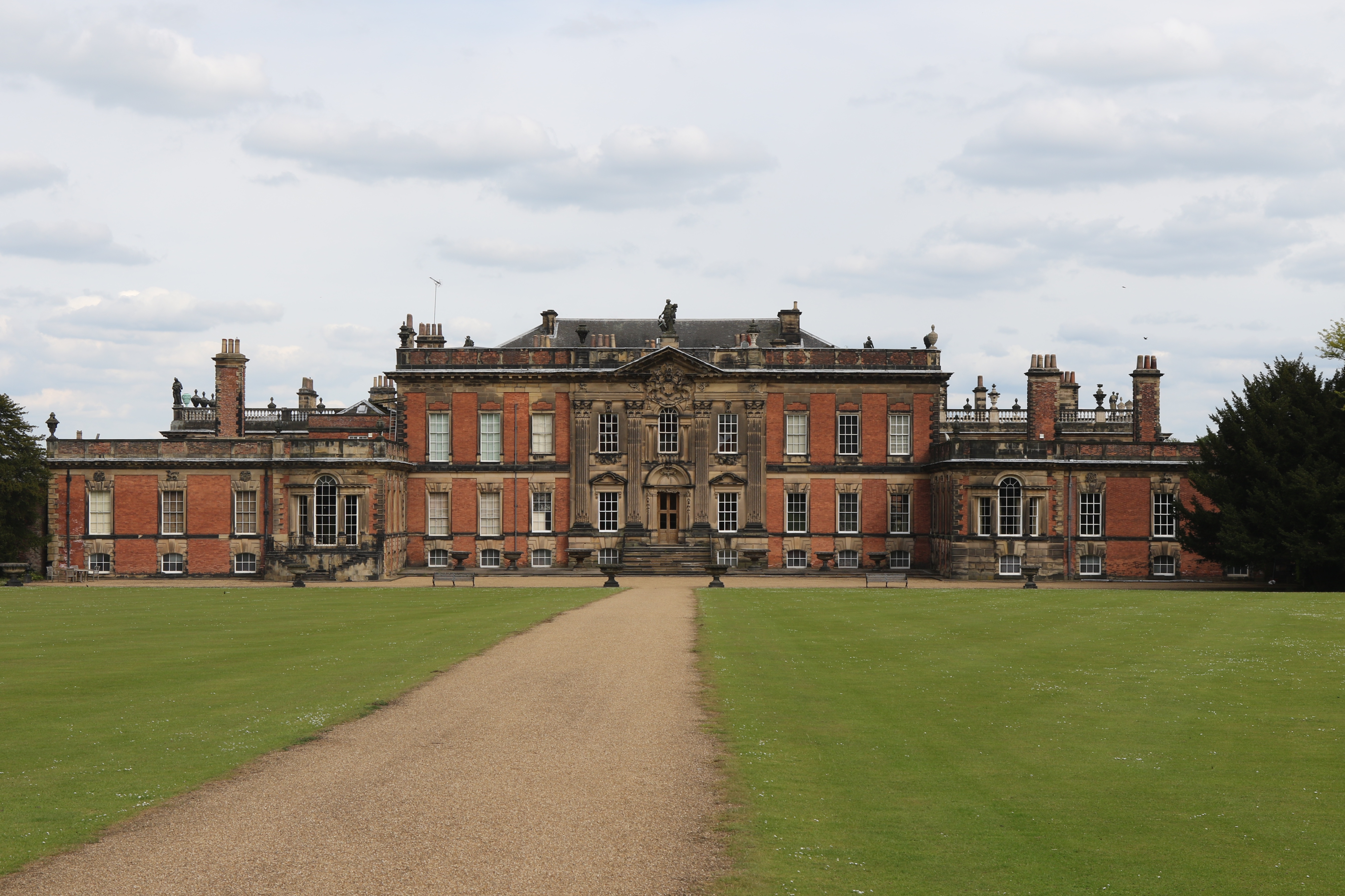 West front of Wentworth Woodhouse in May 2015